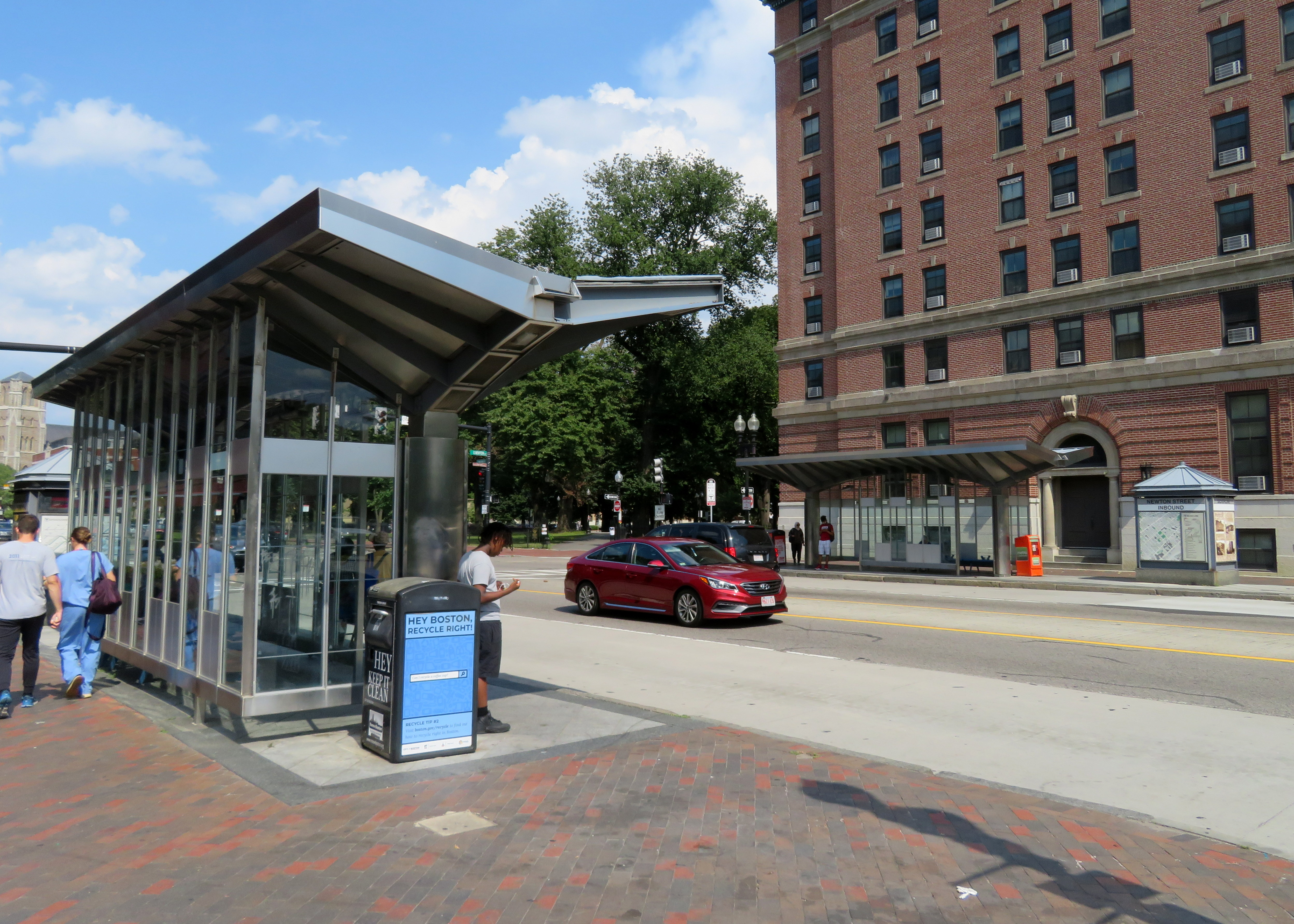 Outbound (left) and inbound shelters at Newton Street in July 2019